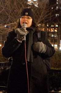 Rosie Mendez at a Vigil in Union Square on Tuesday, January 11, 2010 for the Victims of the Tucson shooting. Photo courtesy of pamhule via Flickr.